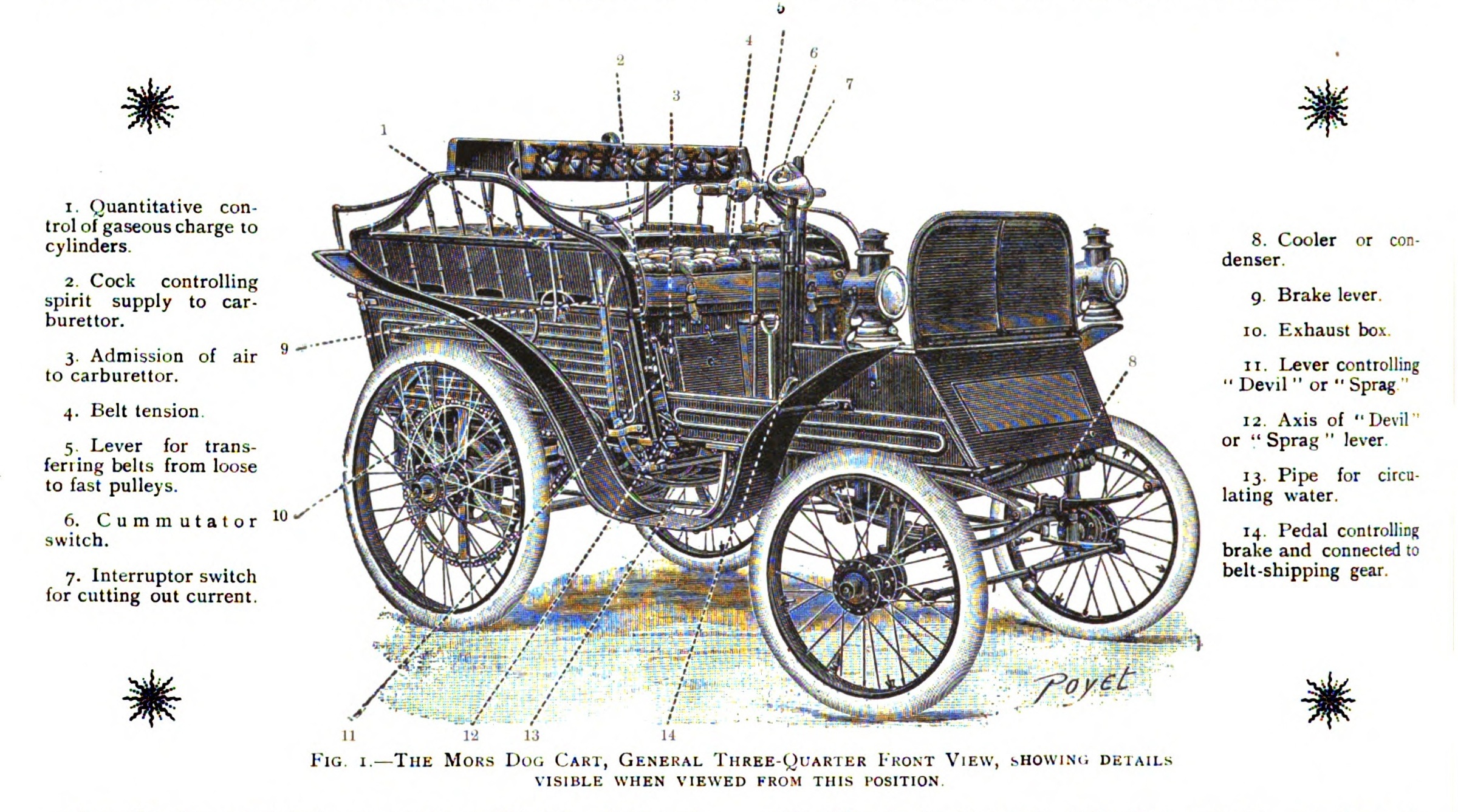 The Mors dogcart, general three-quarter front view showing details visible when viewed from this position — 1 August 1899